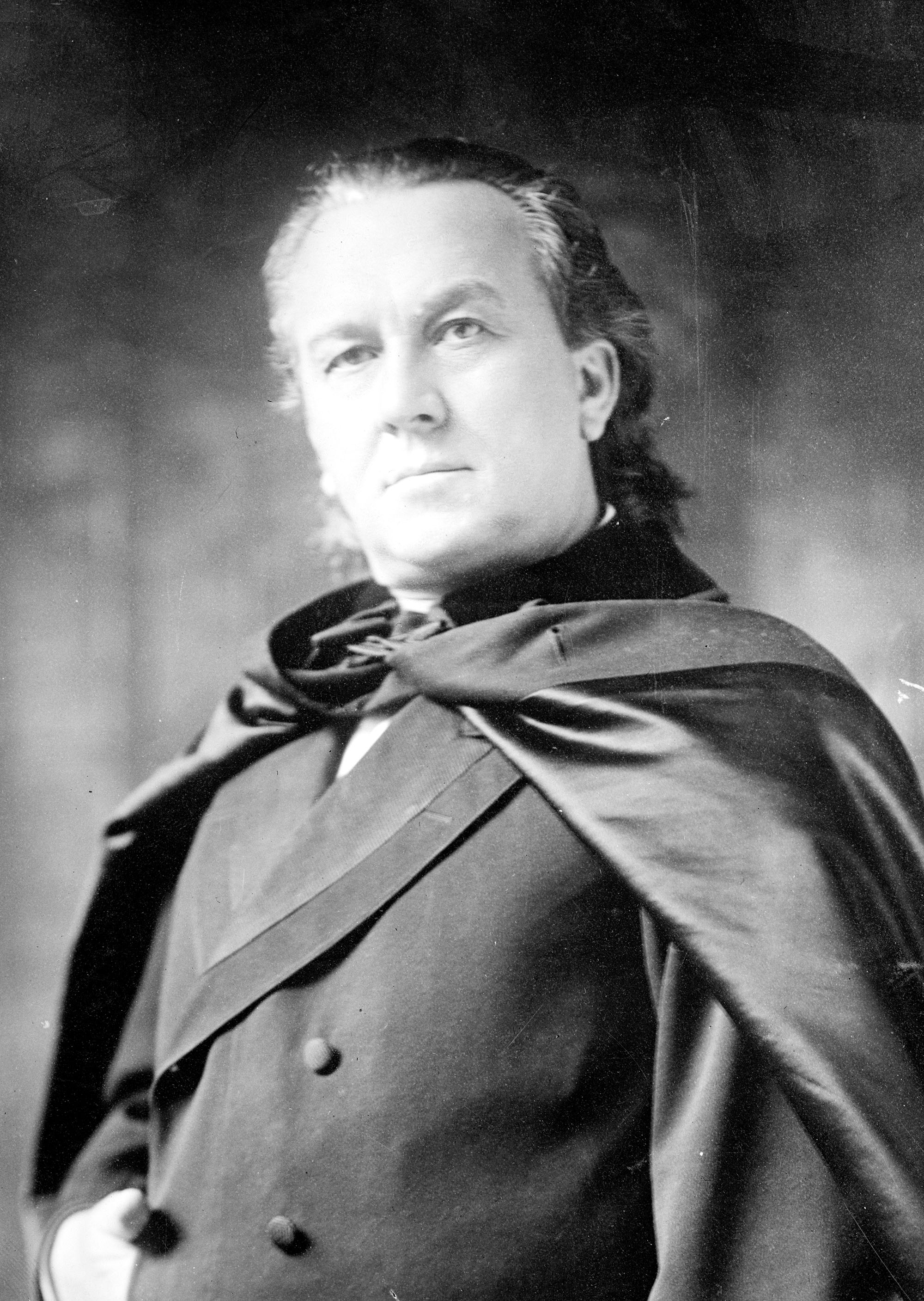 Senator James K. Vardaman of Mississippi